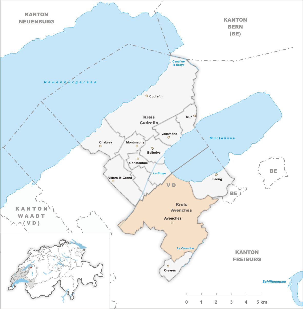 Municipality Avenches